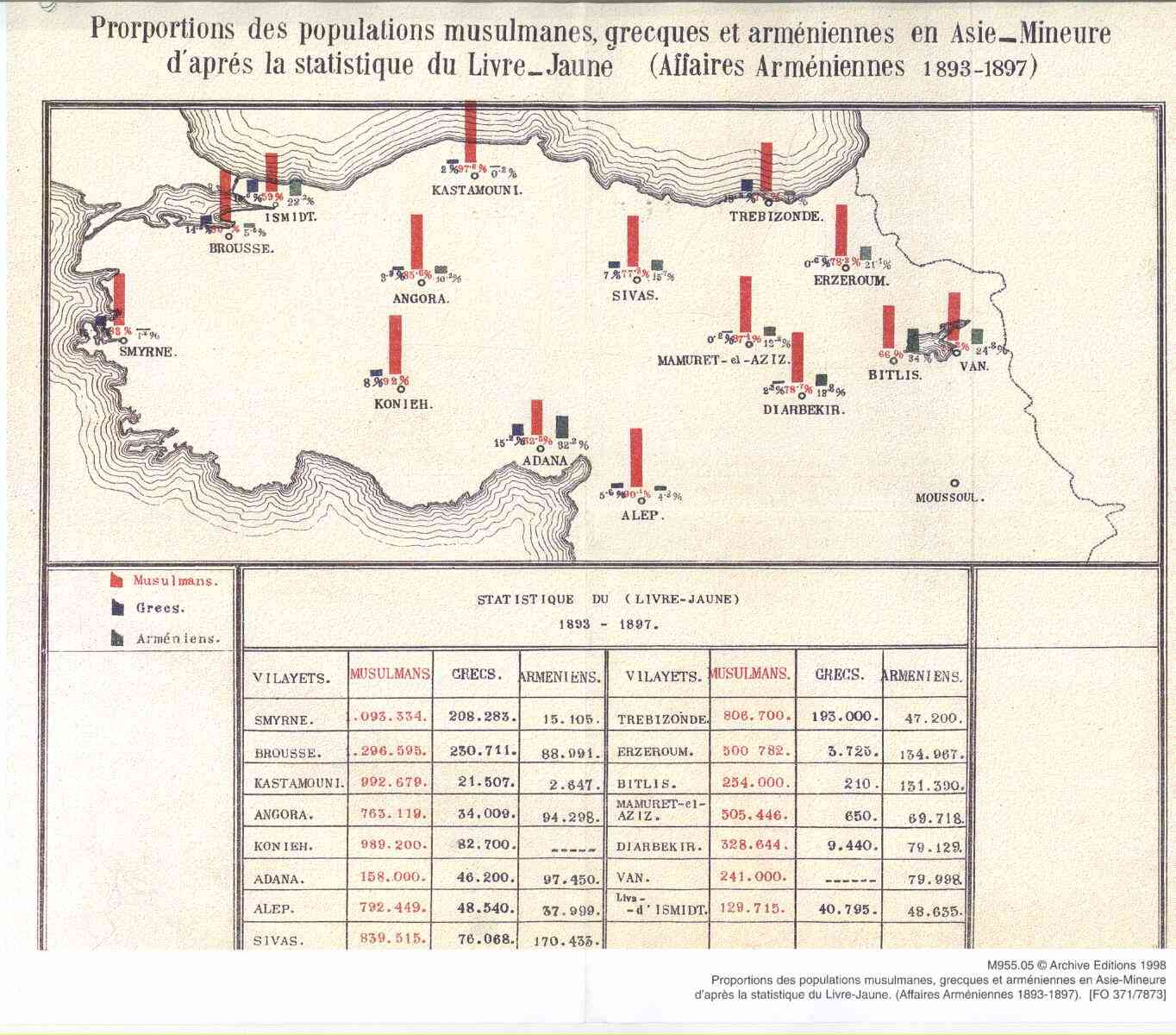 The Ottoman Empire population census document regarding the census established between 1893-1897. First column "musulmans" (Muslims), second "grecs" (Greeks), third "arméniens" (Armenians)